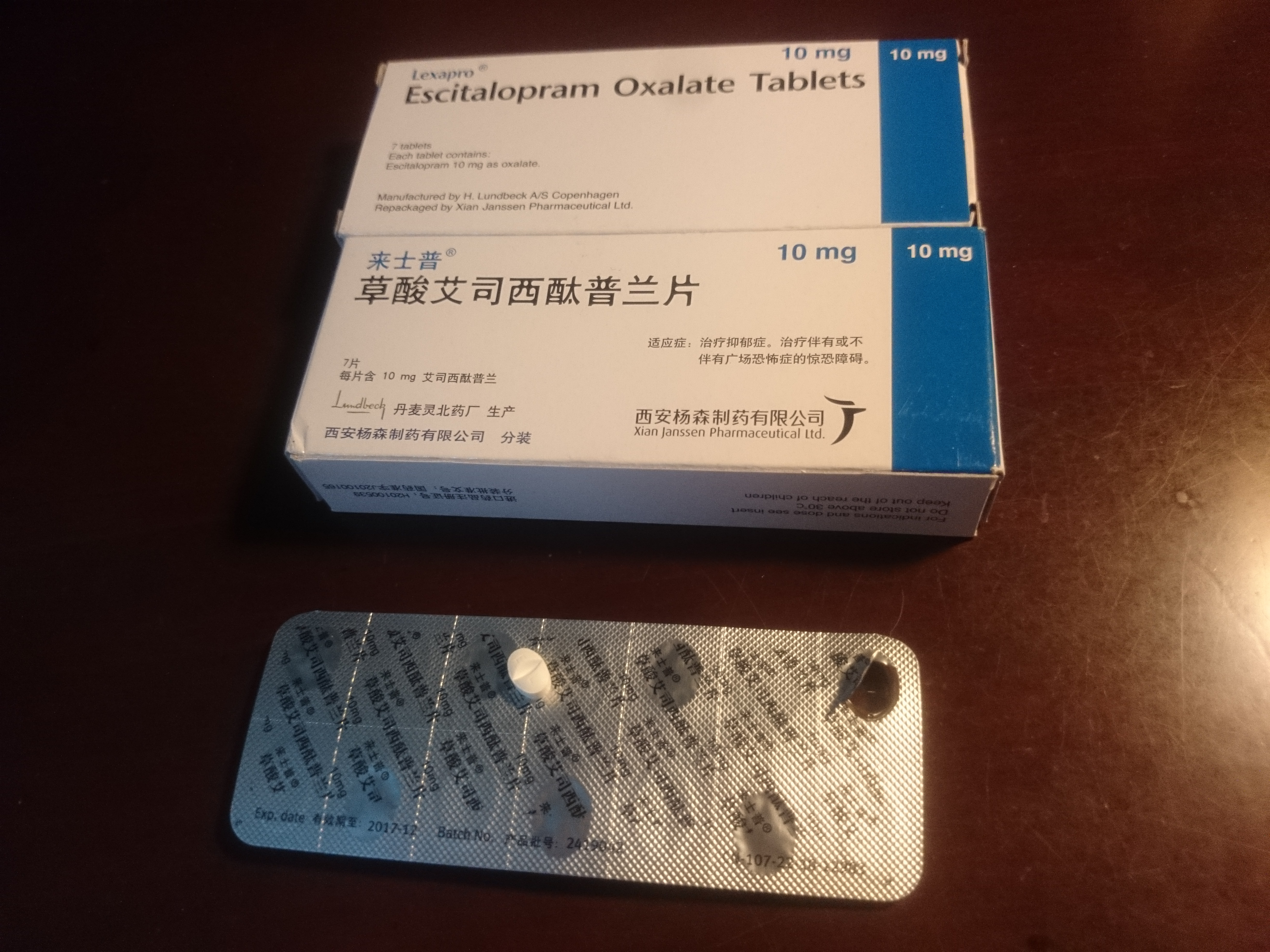 Escitalopram Oxalate Tablets (Lexapro®) sales in Mainland China. Specification is 10mg * 7 tablets.